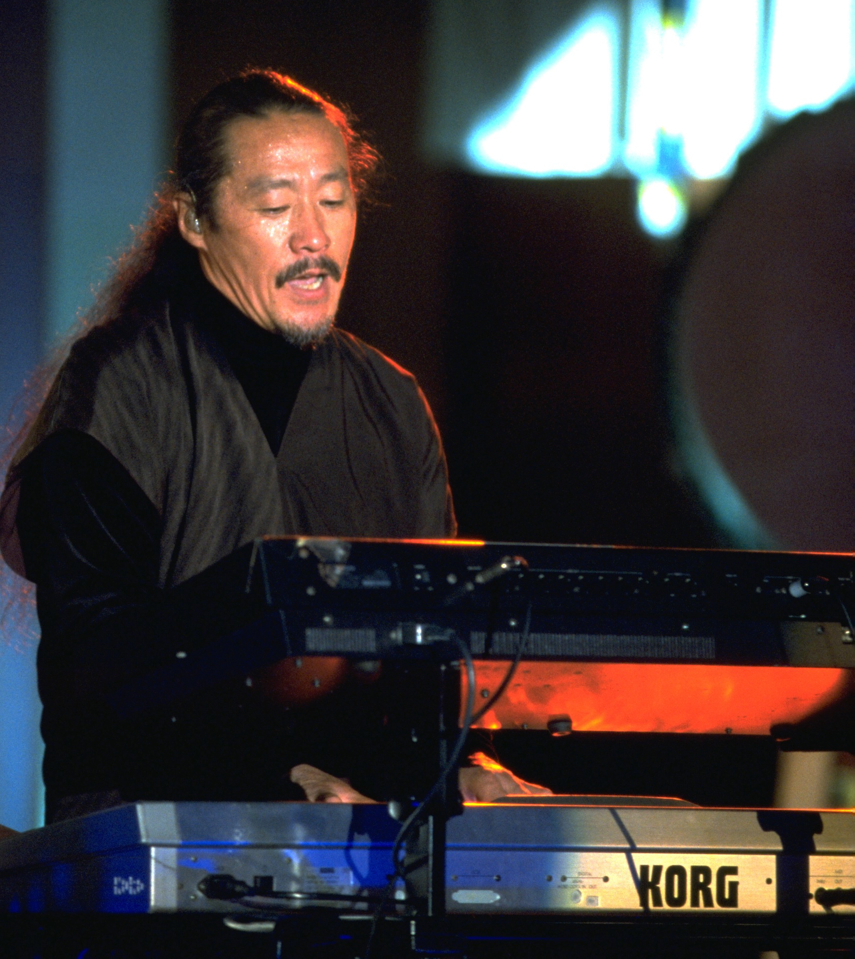 Kitarō, Japanese musician, composer and multi-instrumentalist.